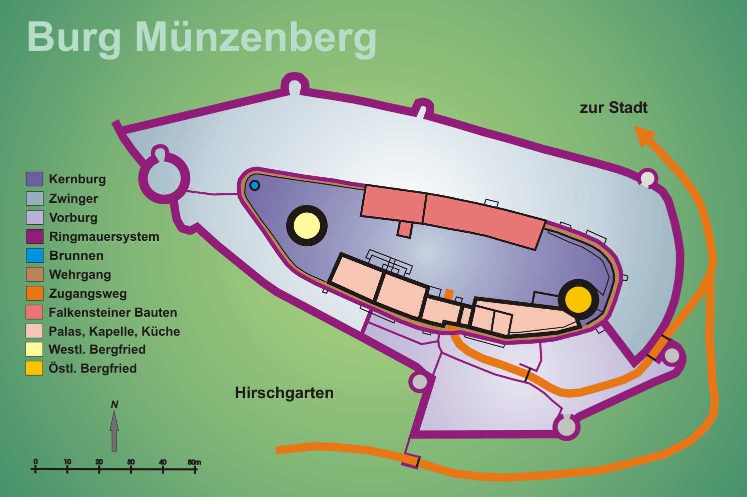 Map of the Münzenberg Castle in the Wetterau, Hesse, Germany